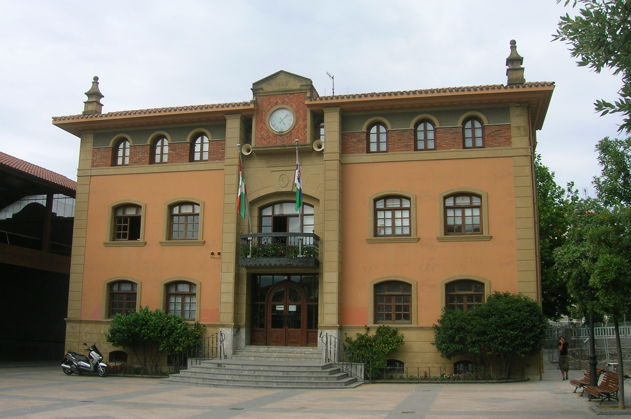 Town hall of Gorliz, in the premises formerly belonging to the school